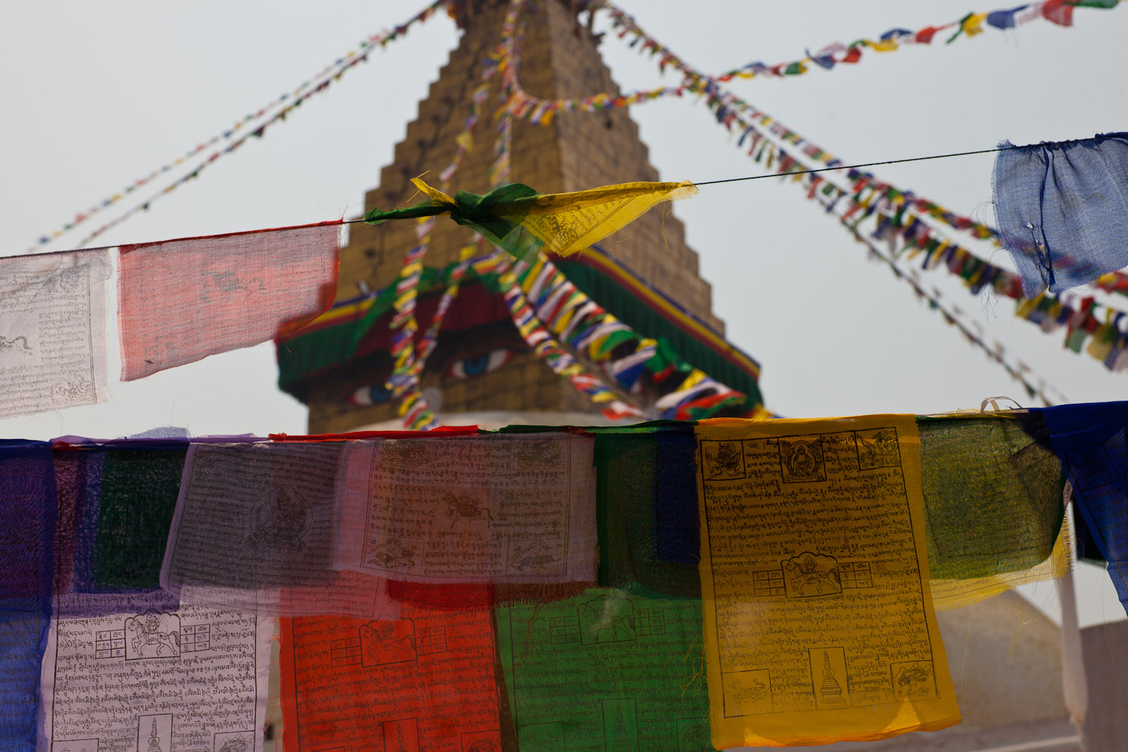 Boudinath Prayer Flags